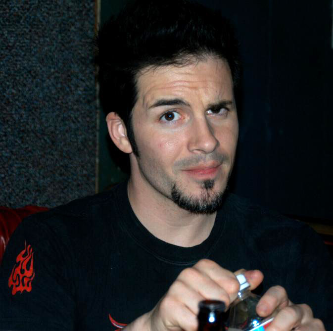 Actor Hal Sparks at a Porn Star karaoke event Depicted person: Hal Sparks – American actor; comedian and musician